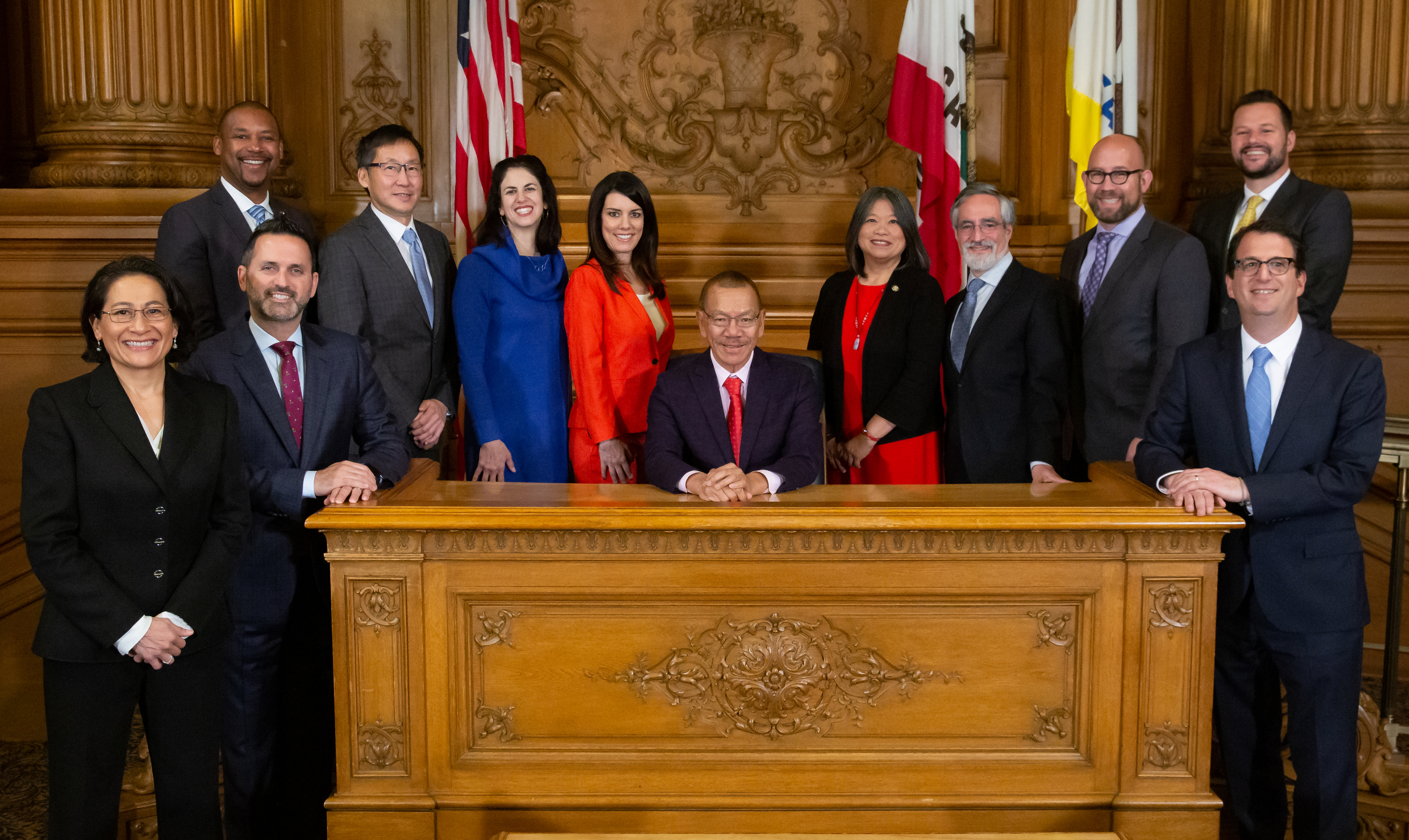 Official group photo of the San Francisco Board of Supervisors, taken on the occasion of Inauguration Day 2020. Description from source: "(Standing Right to Left): Supervisor Term Started Norman Yee (Seated) - President of the Board January 08, 2013 Dean Preston December 17, 2019 Matt Haney January 08, 2019 Rafael Mandelman July 11, 2018 Aaron Peskin December 08, 2015 Sandra Lee Fewer January 08, 2017 Catherine Stefani January 30, 2018 Hillary Ronen January 08, 2017 Gordon Mar January 08, 2019 Shamann Walton January 08, 2019 Ahsha Safai January 08, 2017 Angela Calvillo - Clerk of the Board"